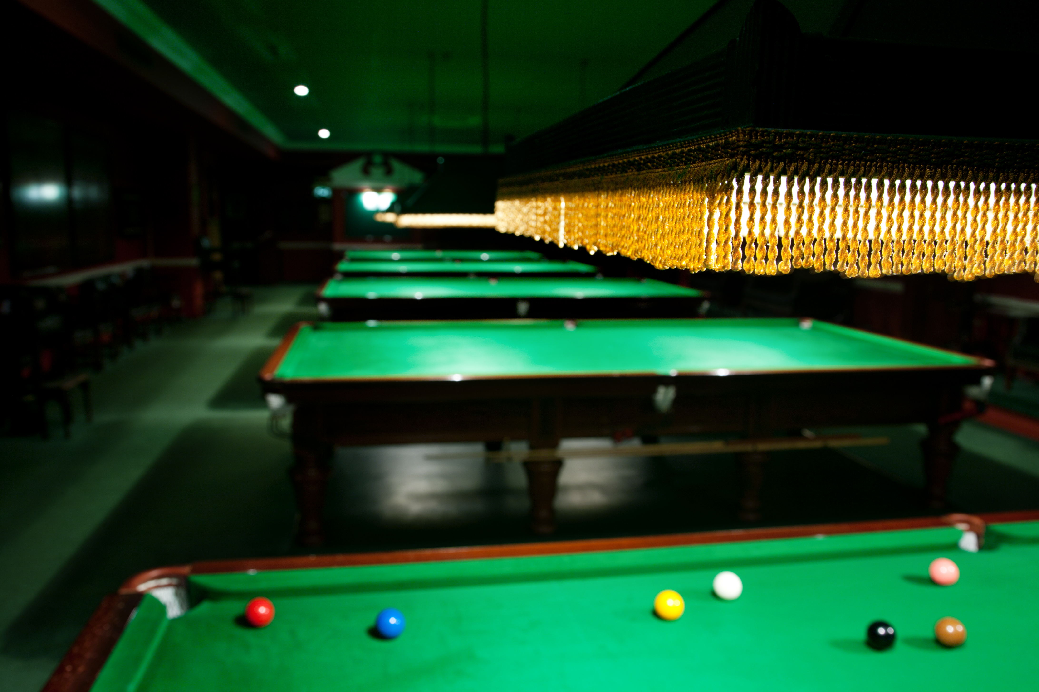 Billiards Room. Royal Automobile Club. London, UK